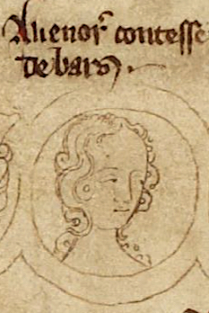 Princess Eleanor of England, Countess consort of Bar, wife of Count Henry III